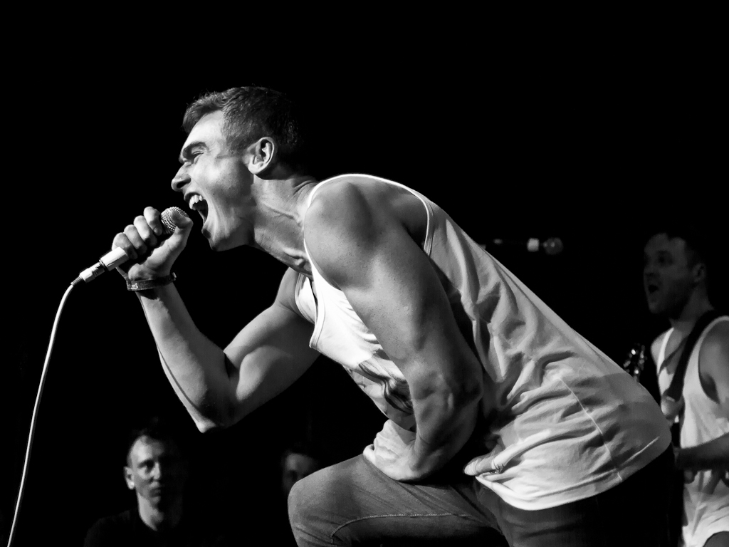 Don Broco live at Slam Dunk festival 2011